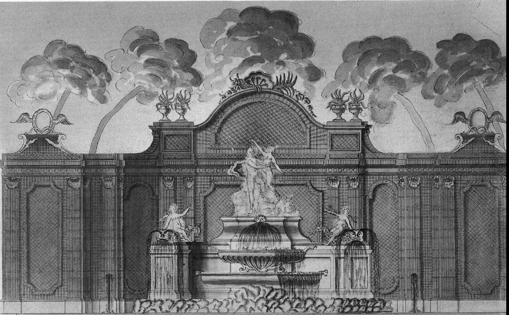 Palais Moszczyńska Brunnen